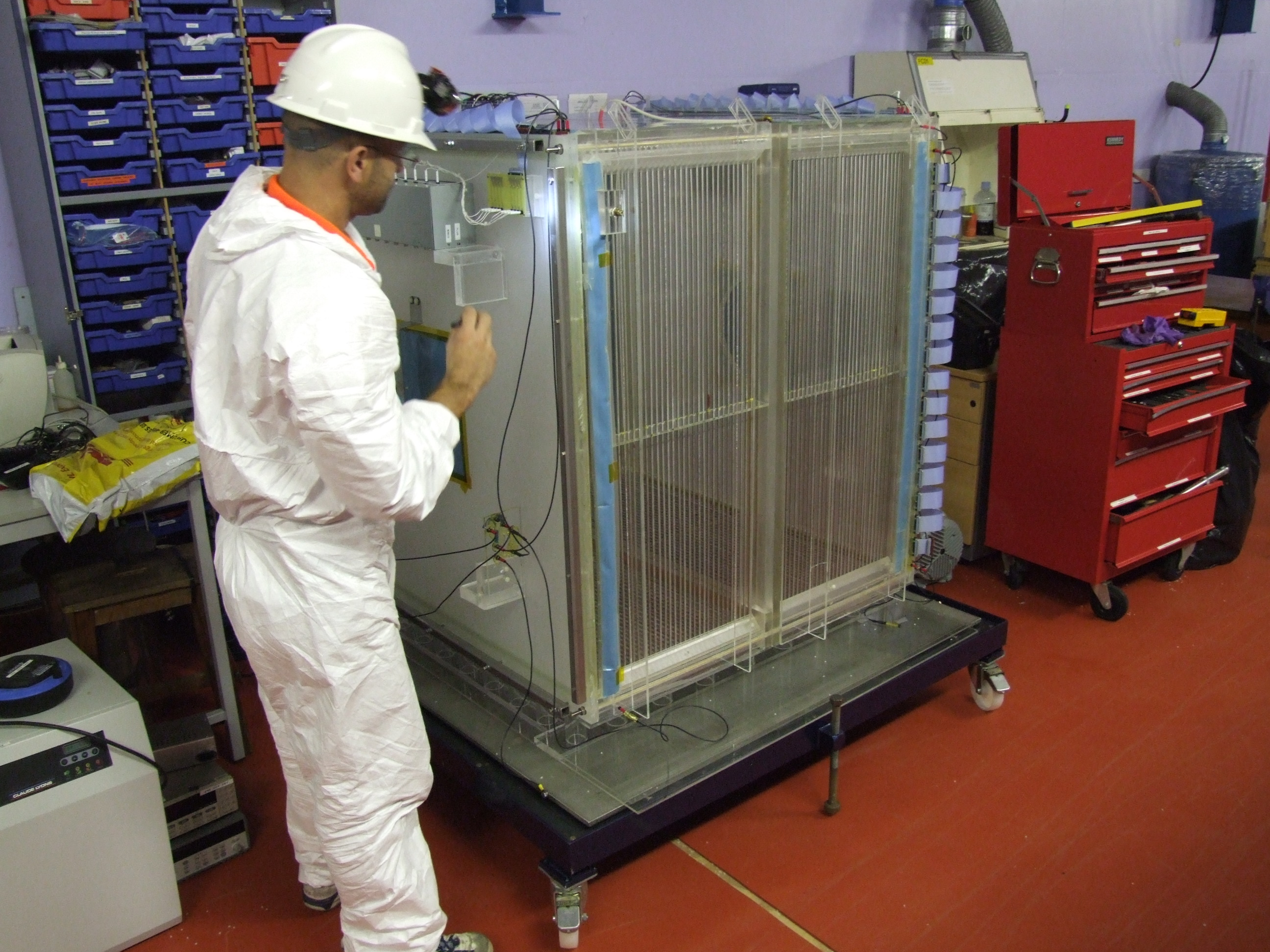 DRIFT-IIb